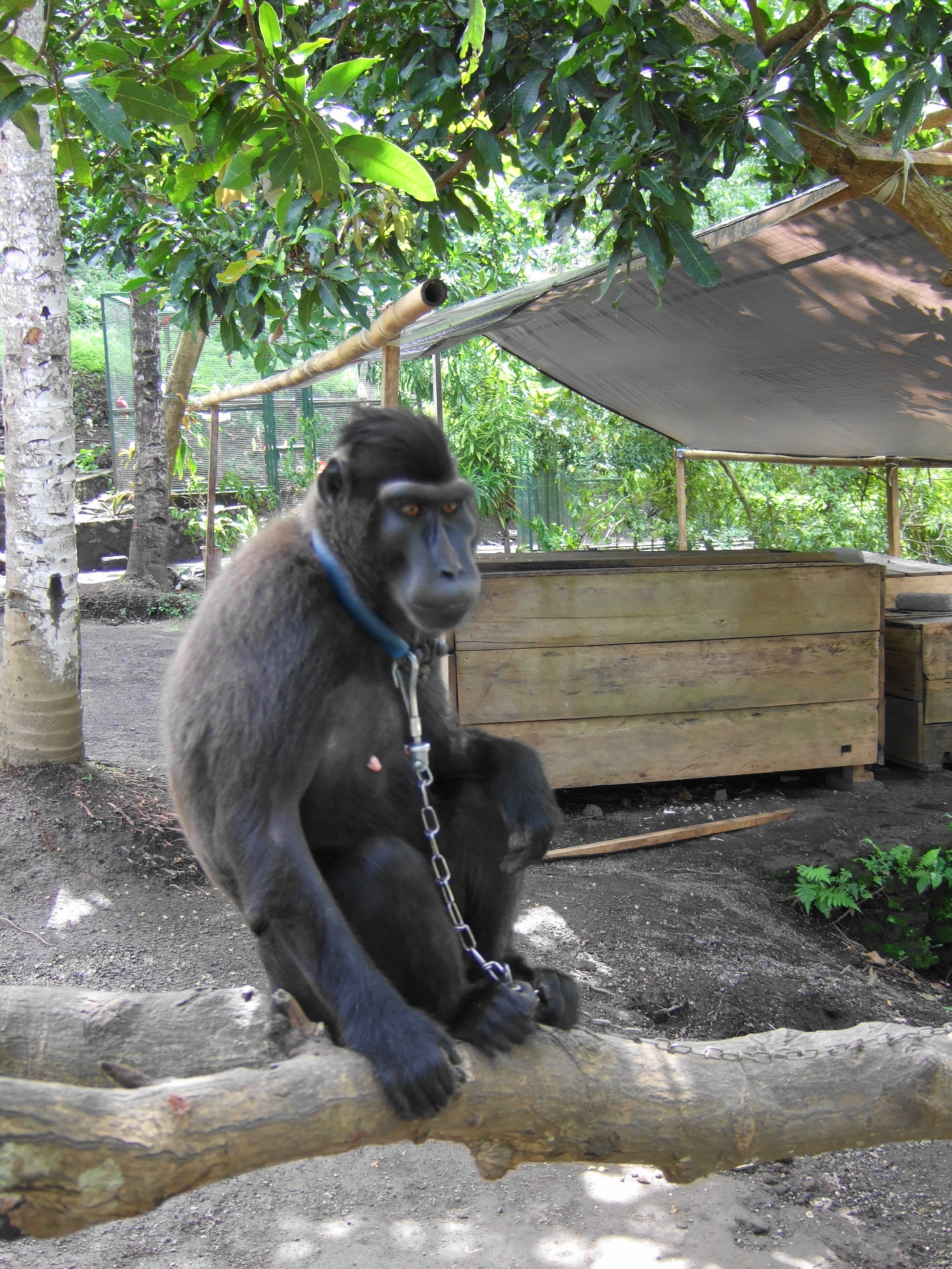 Female Demogabone Macaque (Macaca nigrescens), Tandurusa Zoo, Bitung, North Sulawesi